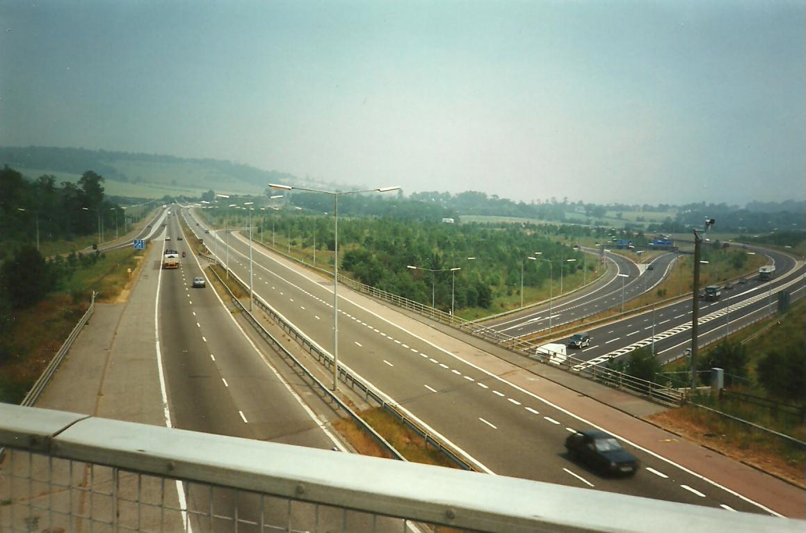 The A21 road (England) through Chevening Junction.